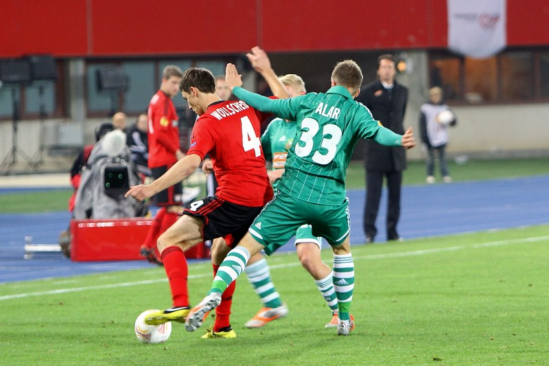 Philipp Wollscheid playing for Bayer Leverkusen